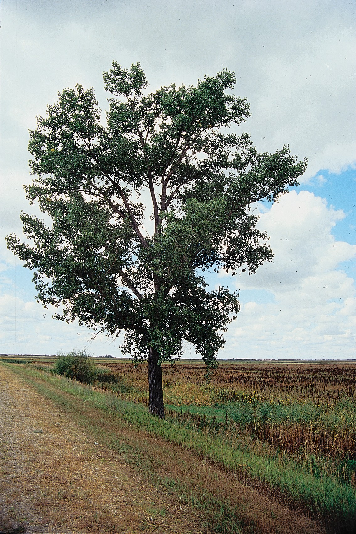 Populus deltoides tree